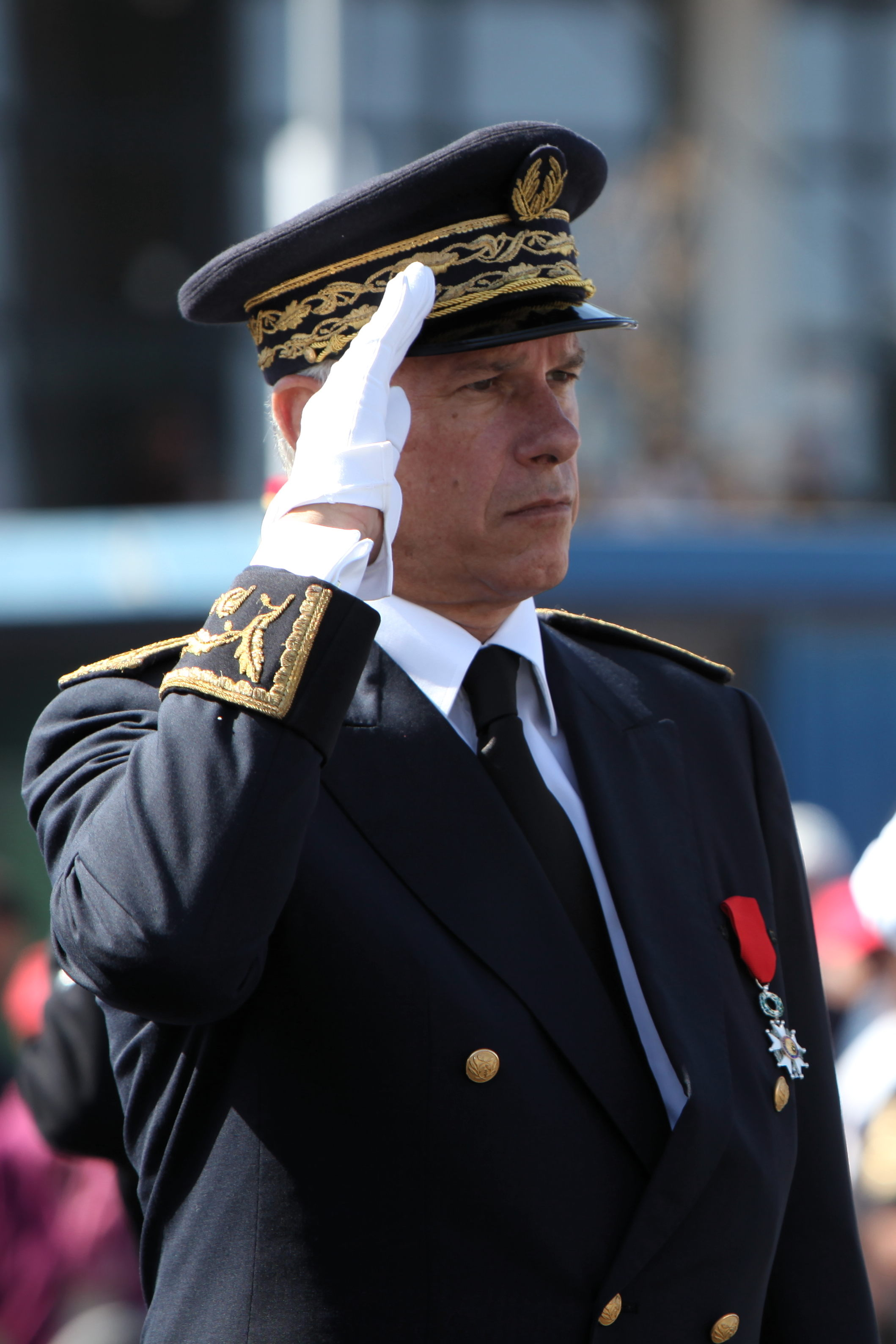 Prefect Hugues Parant at the ceremonies for the 14th of July 2012 in Marseille.